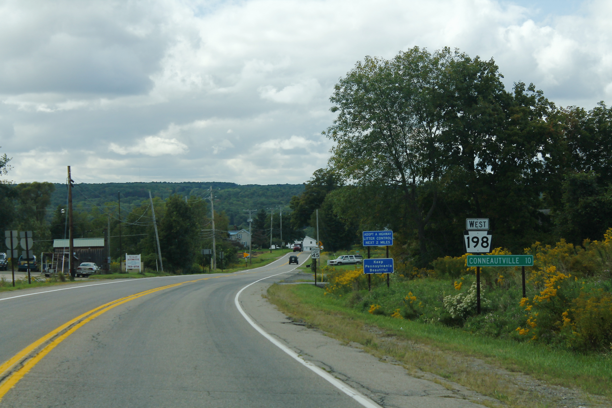 PA198wRoadSignCurve-NearInt79